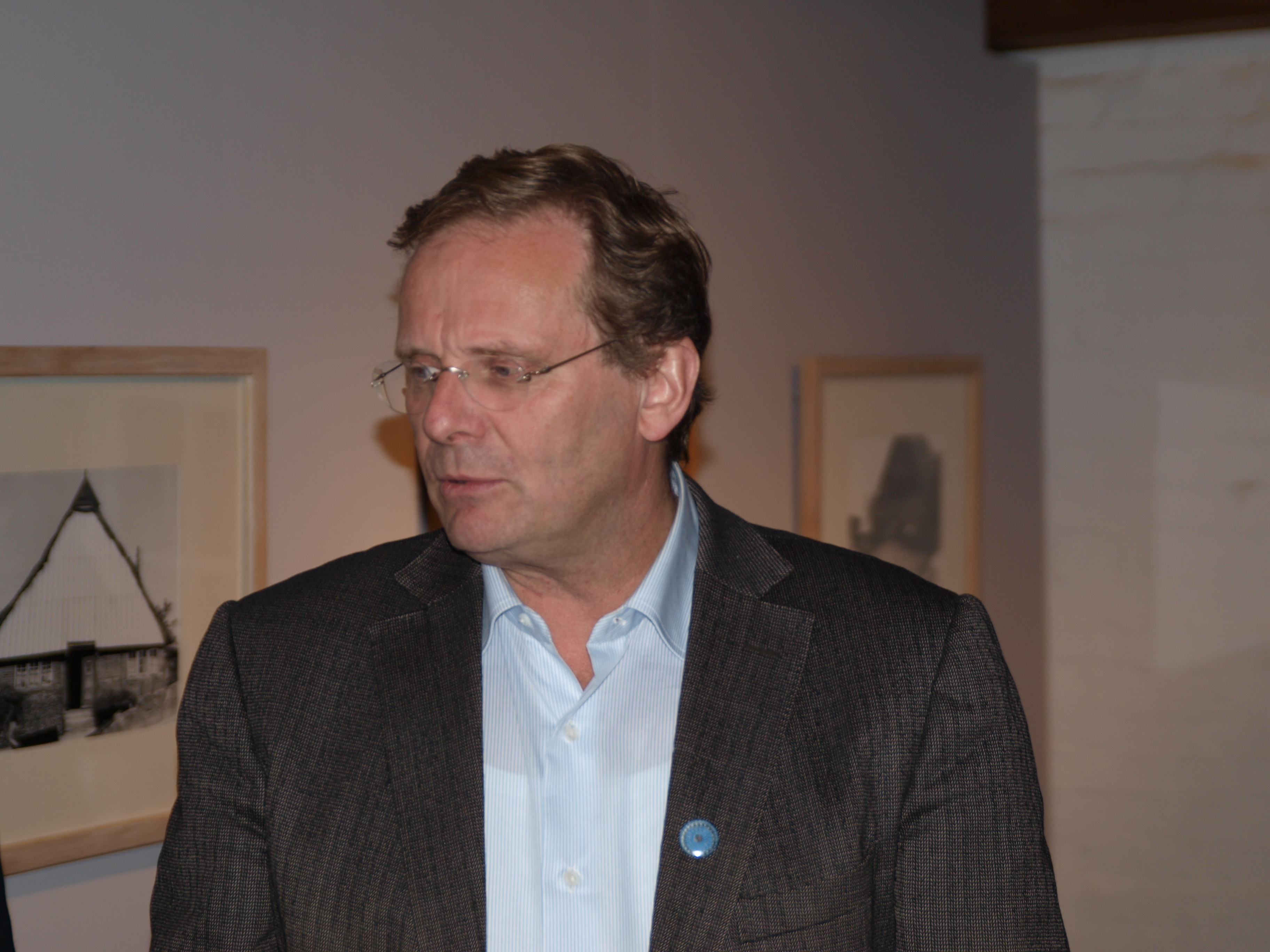 Claus von Carnap-Bornheim German, * 10. November 1957 in Treysa (Schwalmstadt), Hessen, Germany. German praehistorien, museums director and chief archaeologist of Schleswig-Holstein.